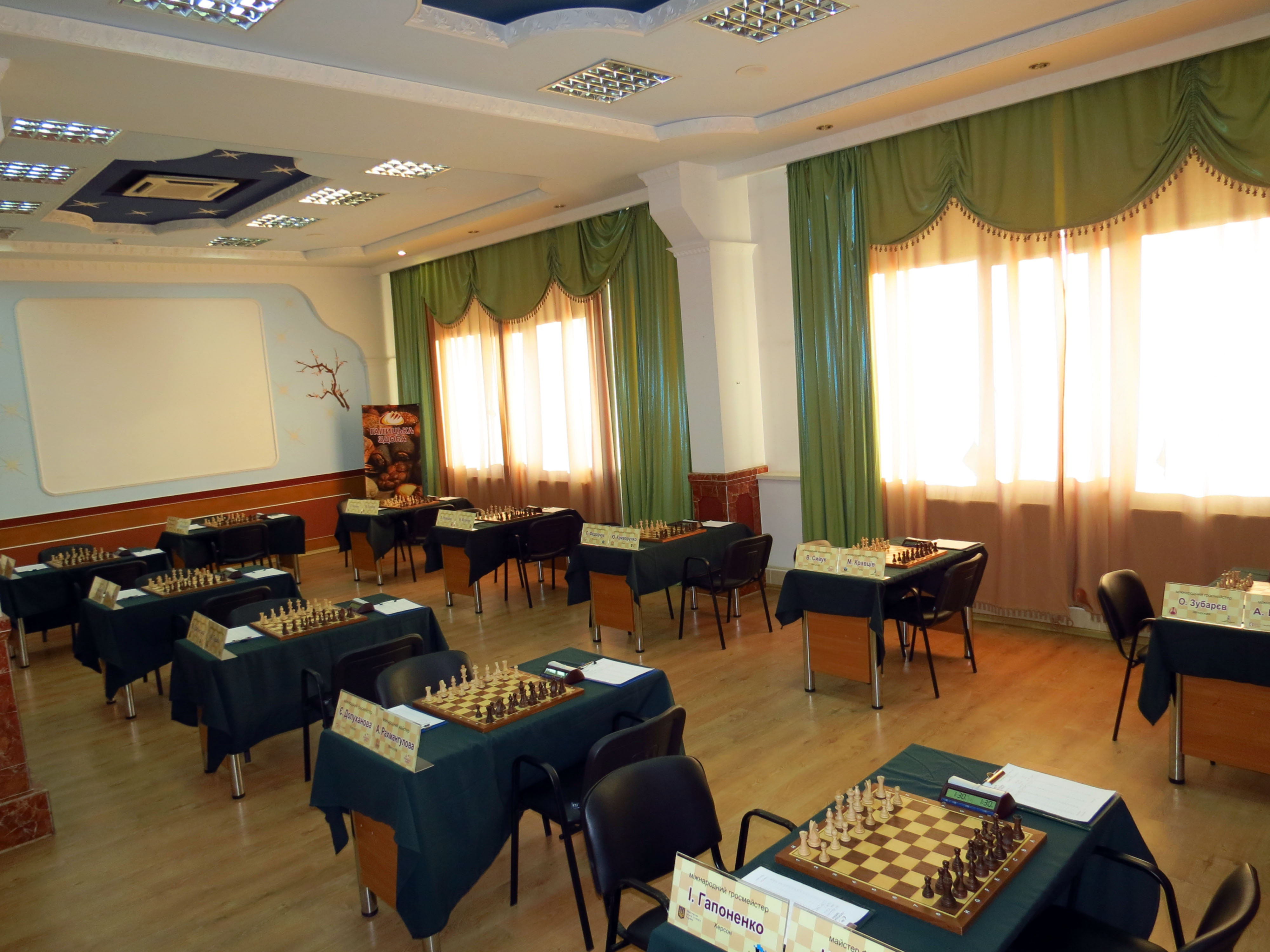 Game room Chess Championship Ukraine 2015